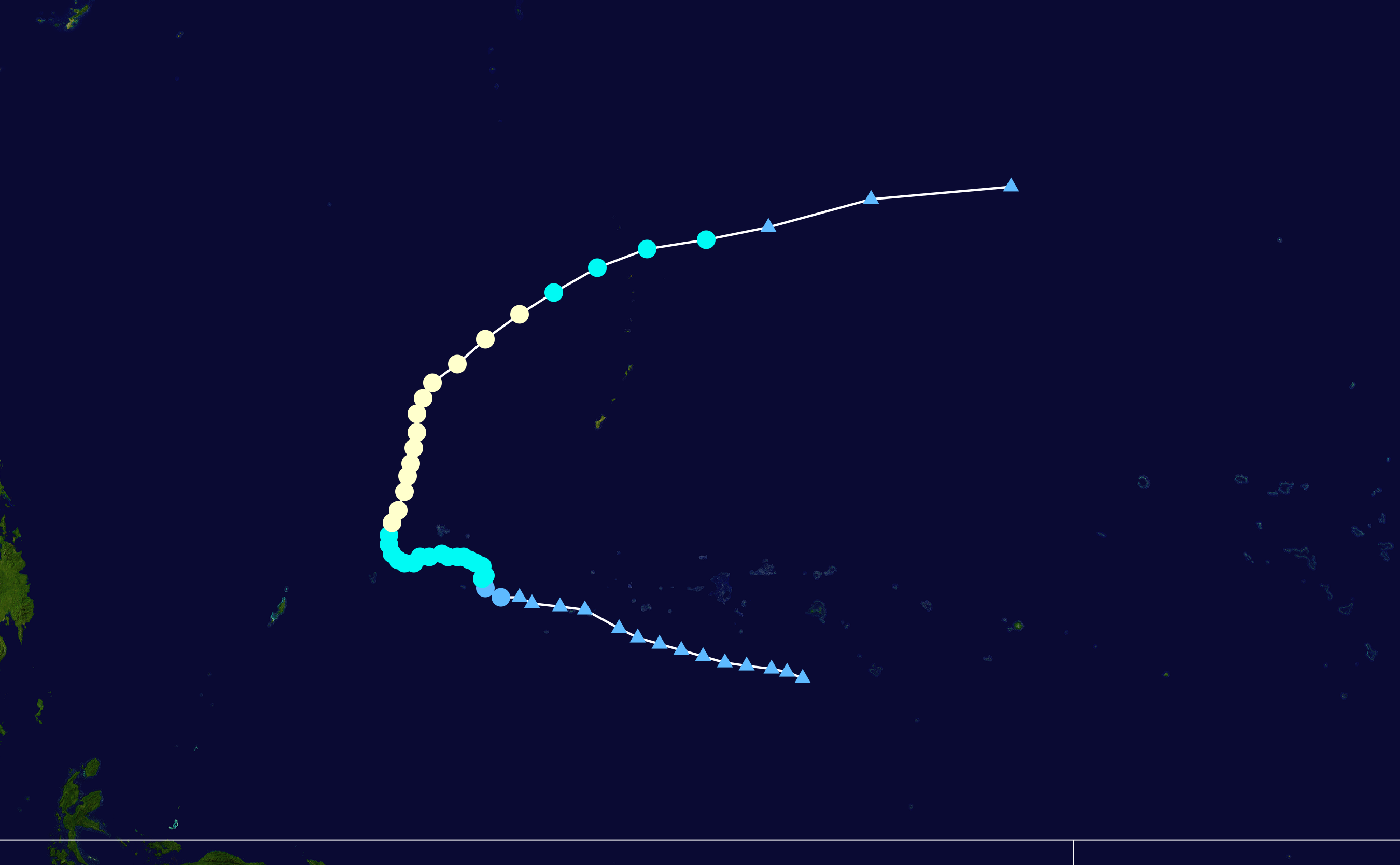 Typhoon Fern 1996 track. Uses the color scheme from the Saffir-Simpson Hurricane Scale.